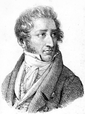 French politician Louis-Gustave Doulcet de Pontécoulant (1764-1853). Note Original caption: "Doulcet de Pontarcoulant (Le Comte), Représentant du peuple, Sénateur, Pair, etc., etc. Né le [blank]".